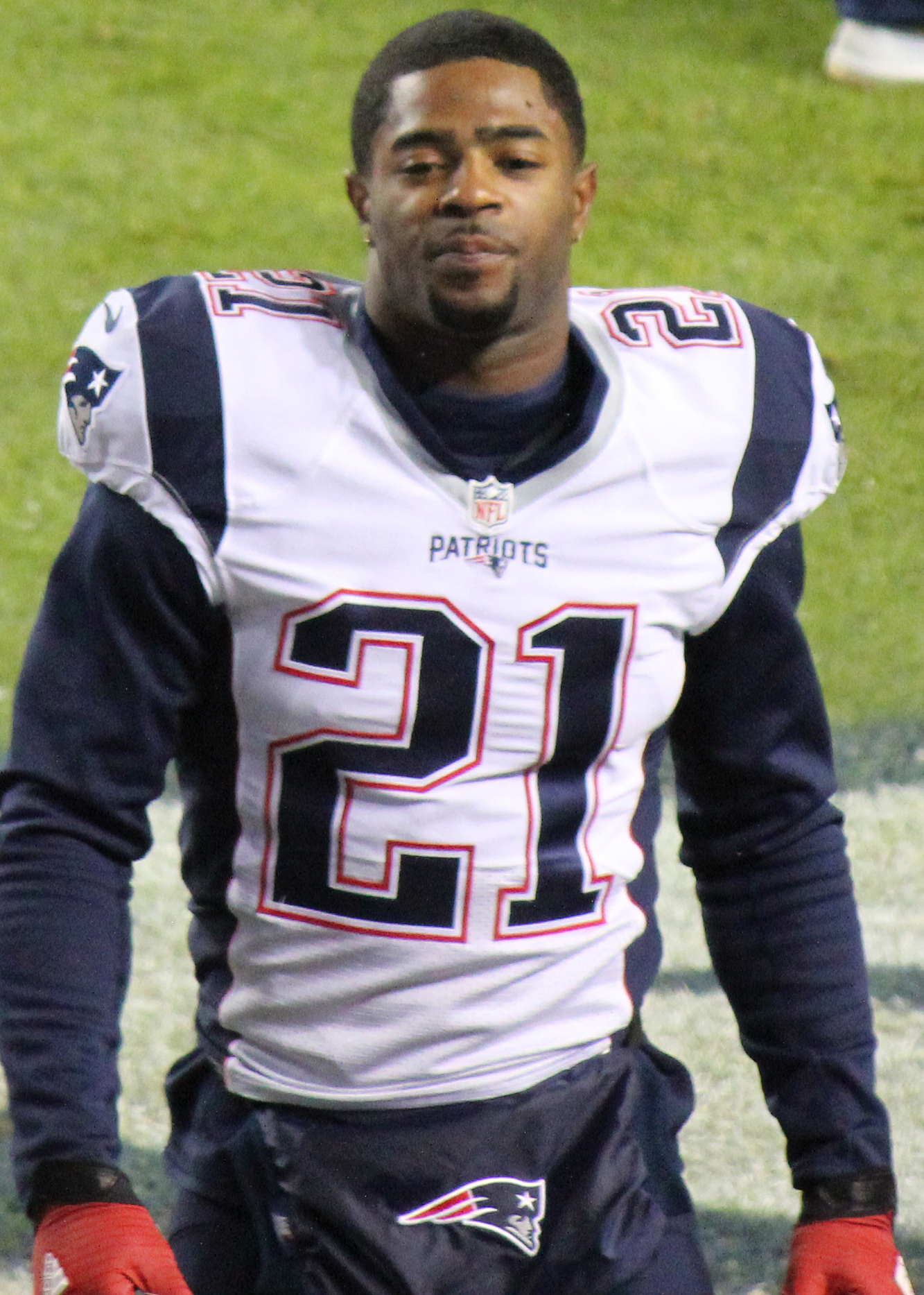 Malcolm Butler, a player on the National Footbal League.